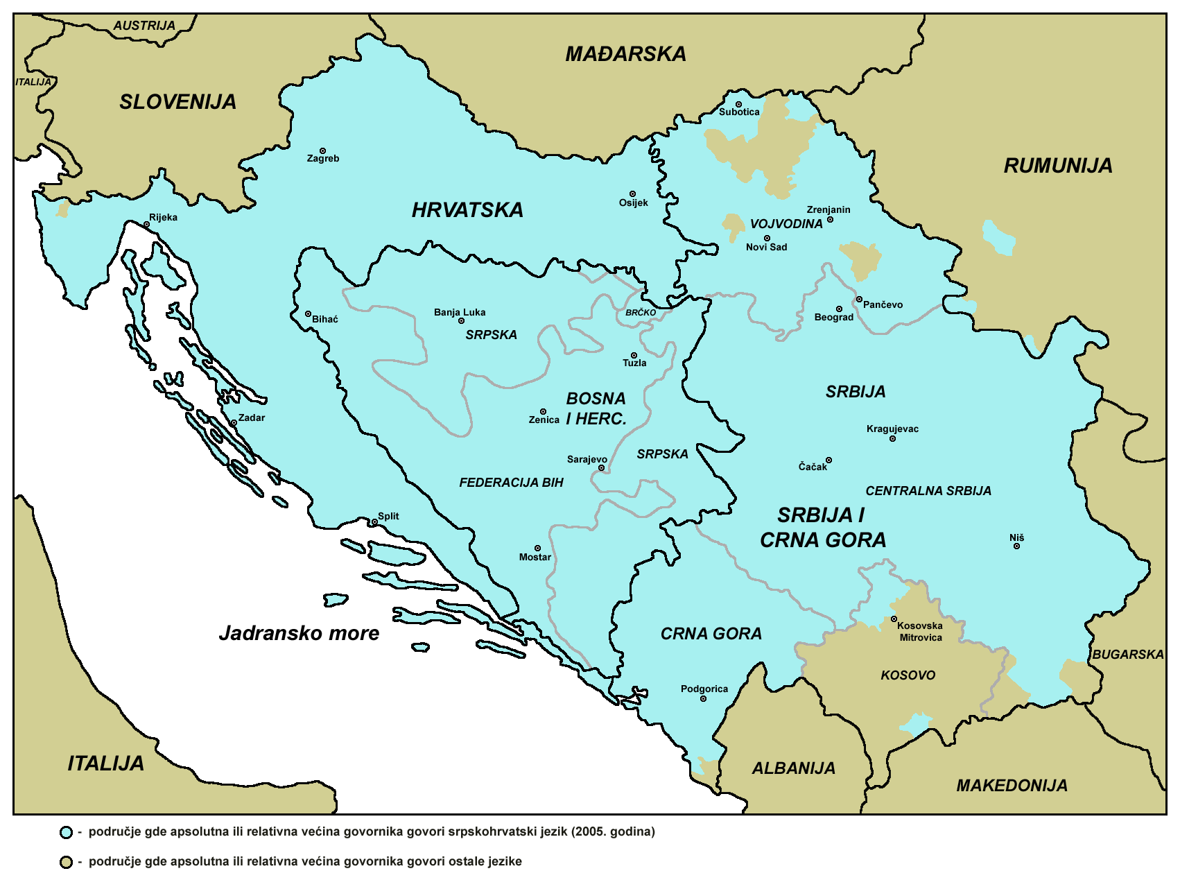 Area where the Serbo-Croatian language or Serbo-Croatian diasystem is spoken by the majority or plurality of speakers (as of 2005) - data by municipalities. Note: many modern linguists still consider Serbo-Croatian to be a single language, no matter that the majority of its speakers declare in census that they speak its official standard forms: Serbian, Croatian, Bosnian, and Montenegrin.Srpskohrvatski / српскохрватски: Područje na kome apsolutna ili relativna većina stanovnika govori srpskohrvatski jezik (2005. godina) - podaci po opštinama. Napomena: mnogi današnji lingvisti smatraju da je srpsko-hrvatski i dalje jedan jezik, bez obzira što većina njegovih govornika na popisu iskazuje da govori njegove zvanične standardne forme: srpski, hrvatski, bosanski i crnogorski.